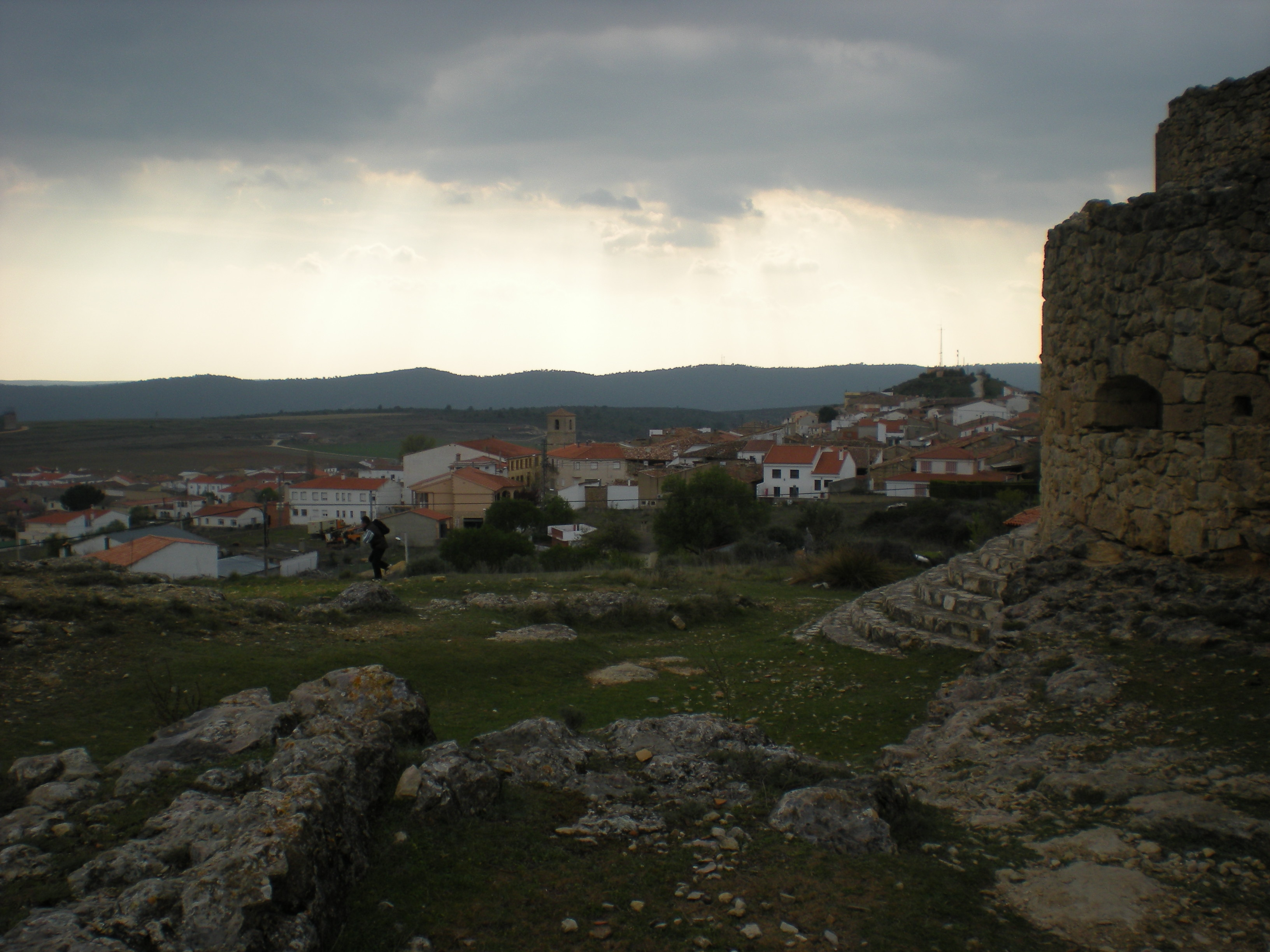 picture of Cardenete